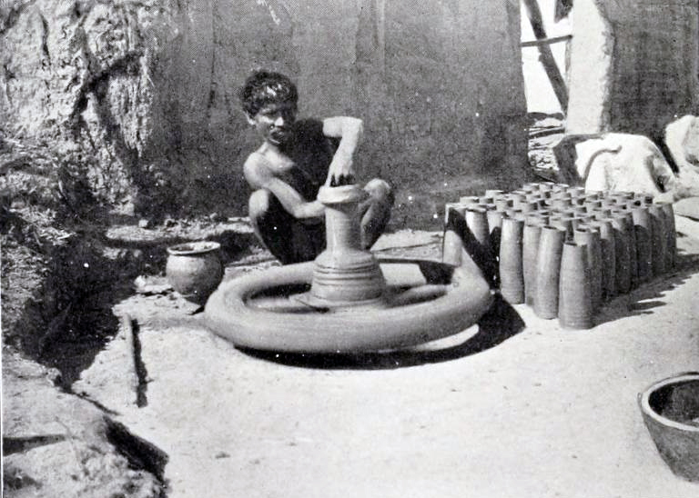 Pottery wheel before 1910